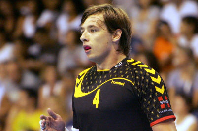 Xavier Barachet in a game with the trikot from Chambery(French)